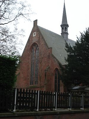 Photo of the 'Dorpskerk' of Leiderdorp